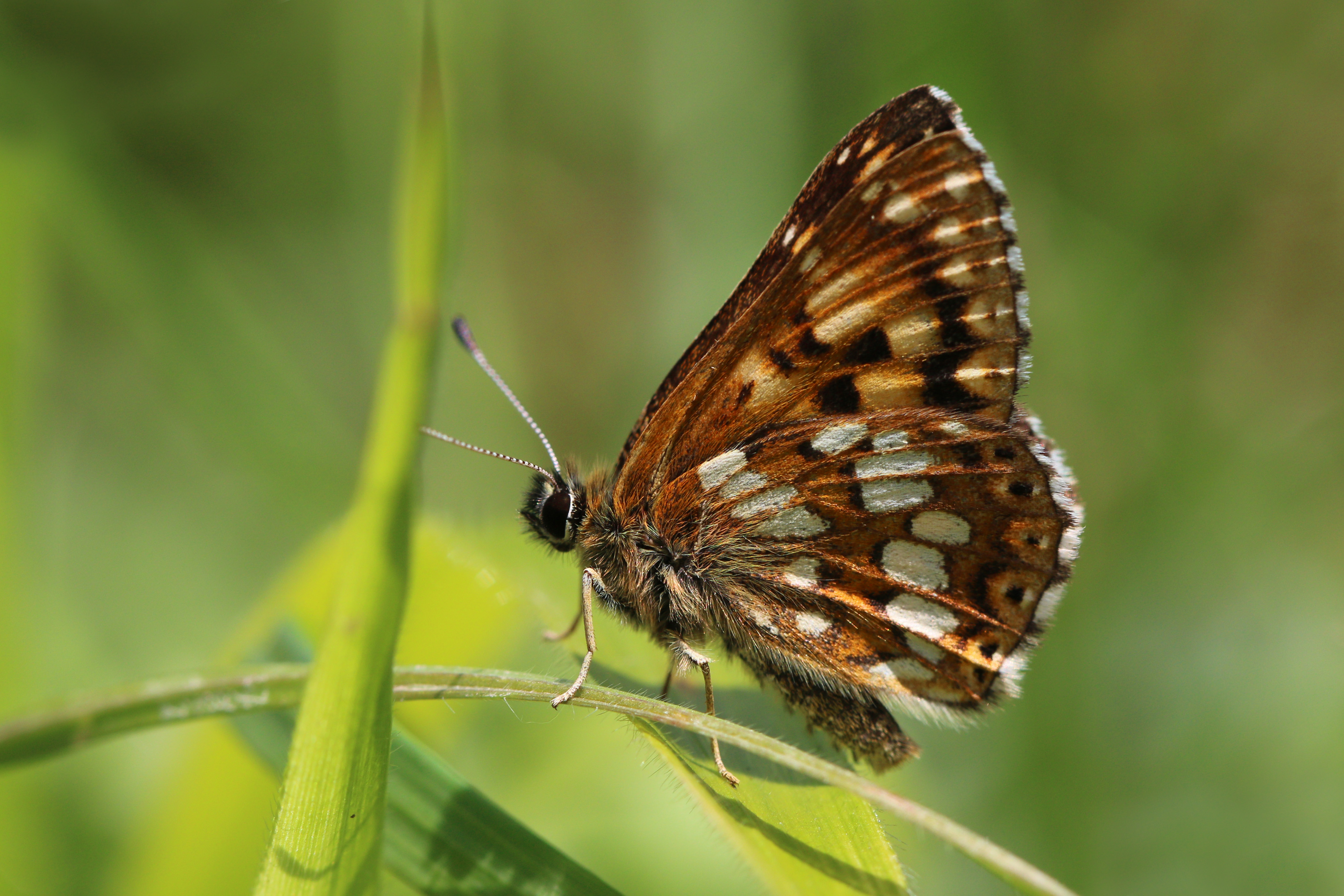 Duke of Burgundy (Hamearis lucina) male, Ivinghoe Beacon, Buckinghamshire